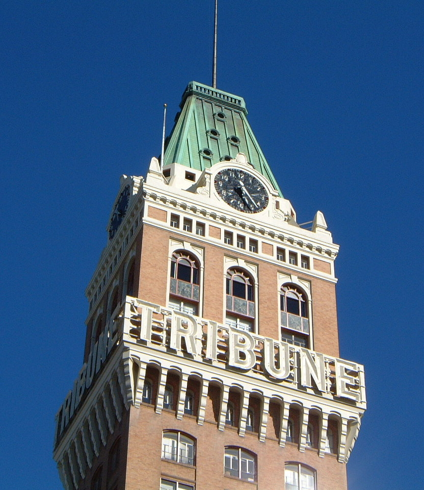 Oakland Tribune tower close-up